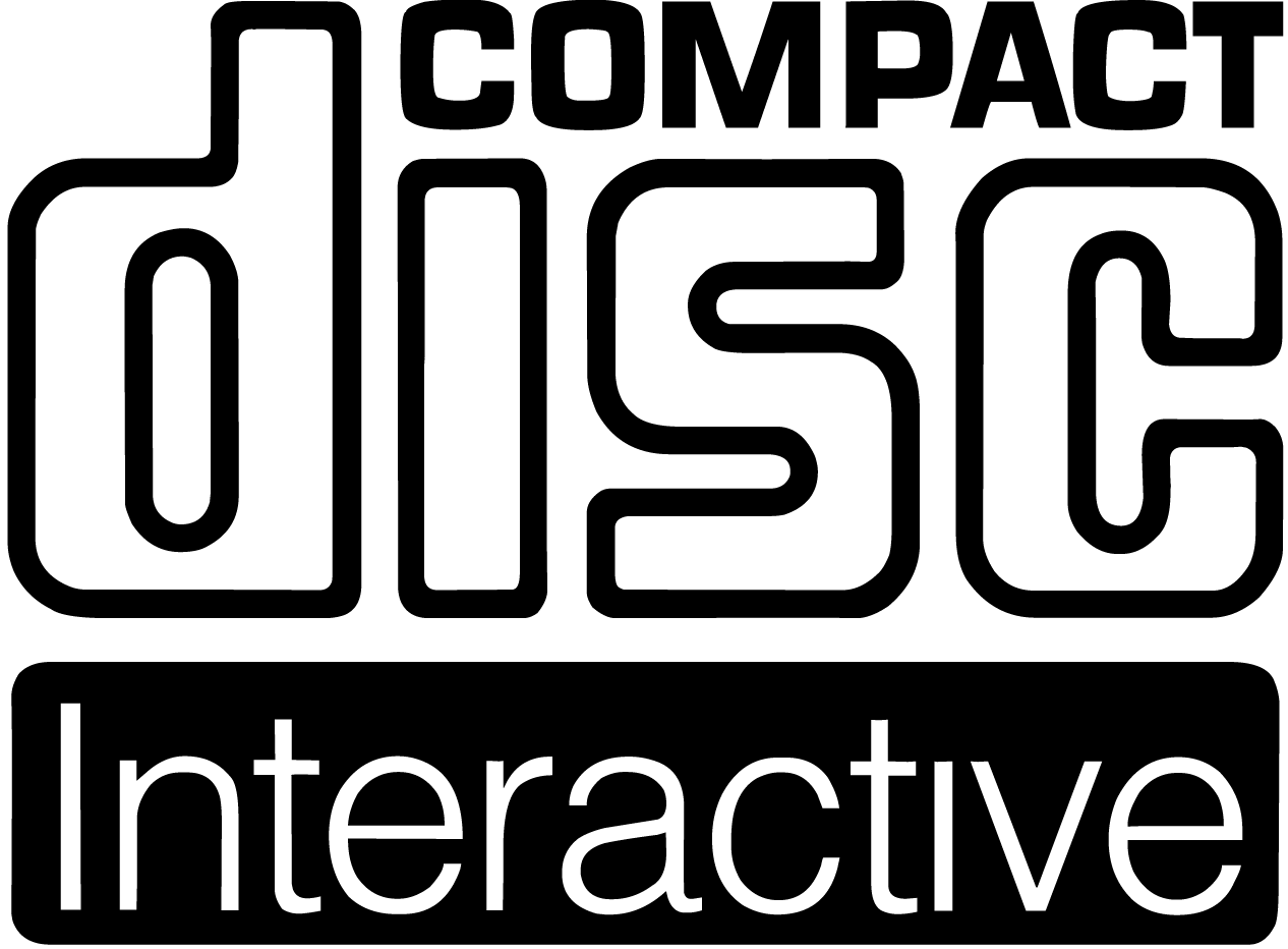 Green Book (CD-interactive standard) logo